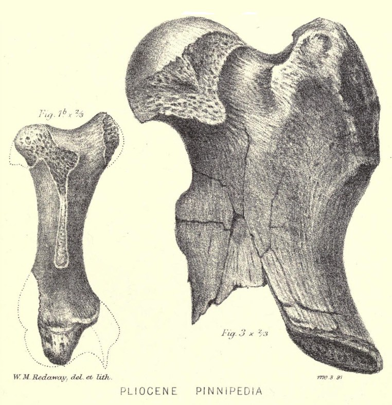 Phoca (a seal) humerus & Trichecus huxleyi (a walrus) femur fragments, fossils figured in Newton, ET (1891): 'The Vertebrata of the Pliocene Deposits of Britain'. Memoirs of the Geological Survey of the United Kingdom, London; plate 2. T.huxleyi is a synonym for Ontocetus emmonsi Leidy 1859.